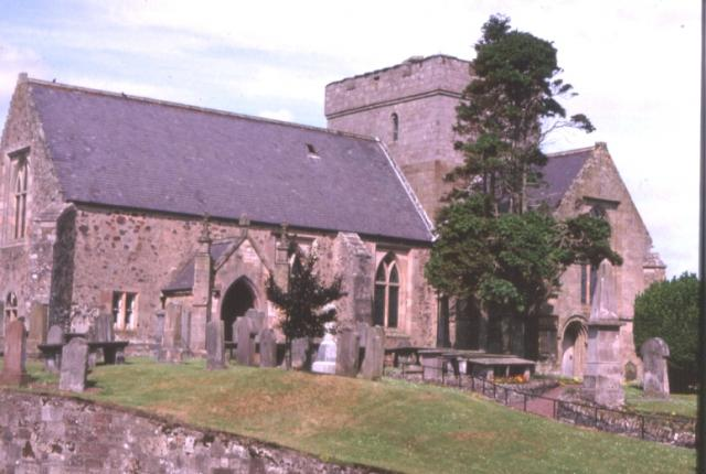 Biggar Kirk. Biggar was well supplied with kirks. This is the old parish kirk